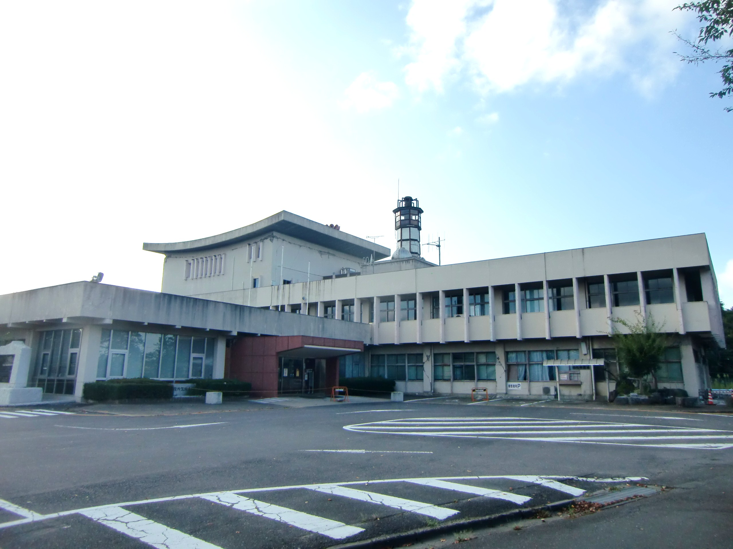 This is the Kasama city hall Kasama branch in Kasama, Ibaraki, Japan.